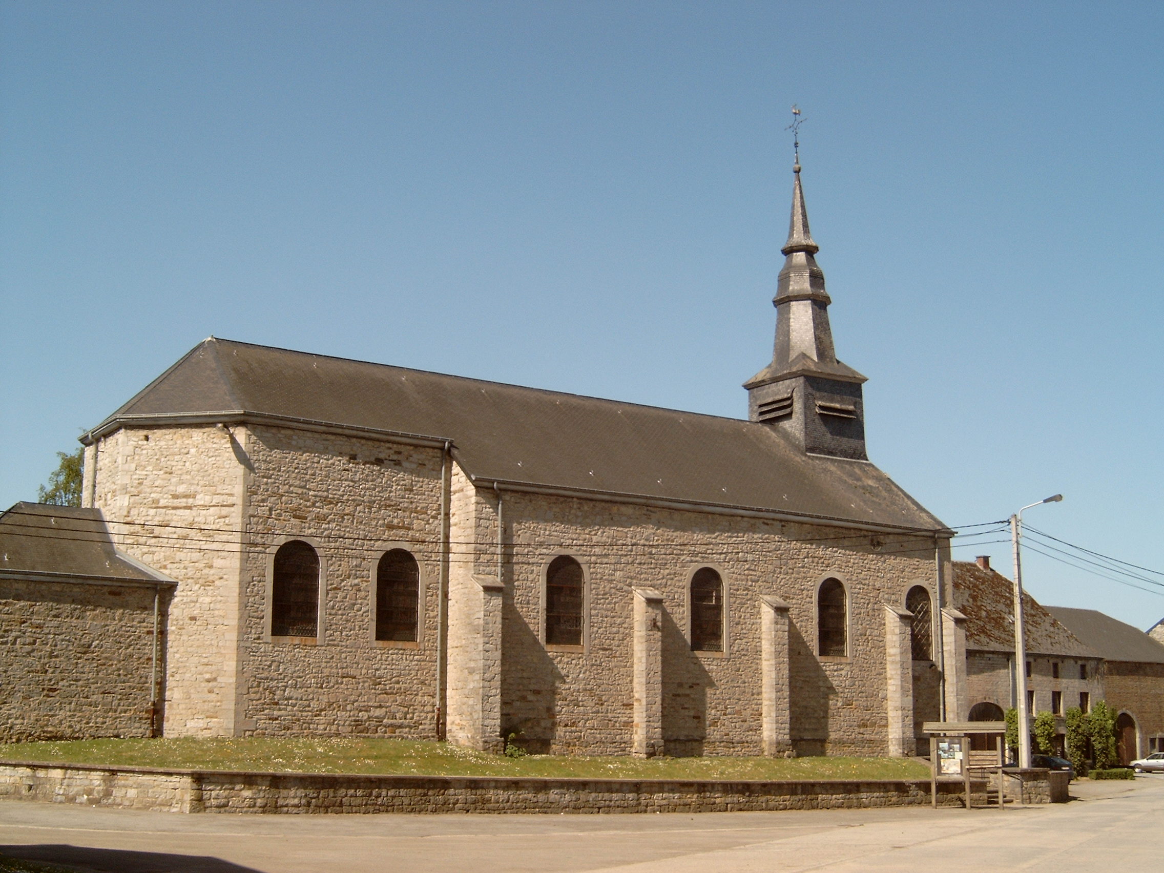 Ambly church